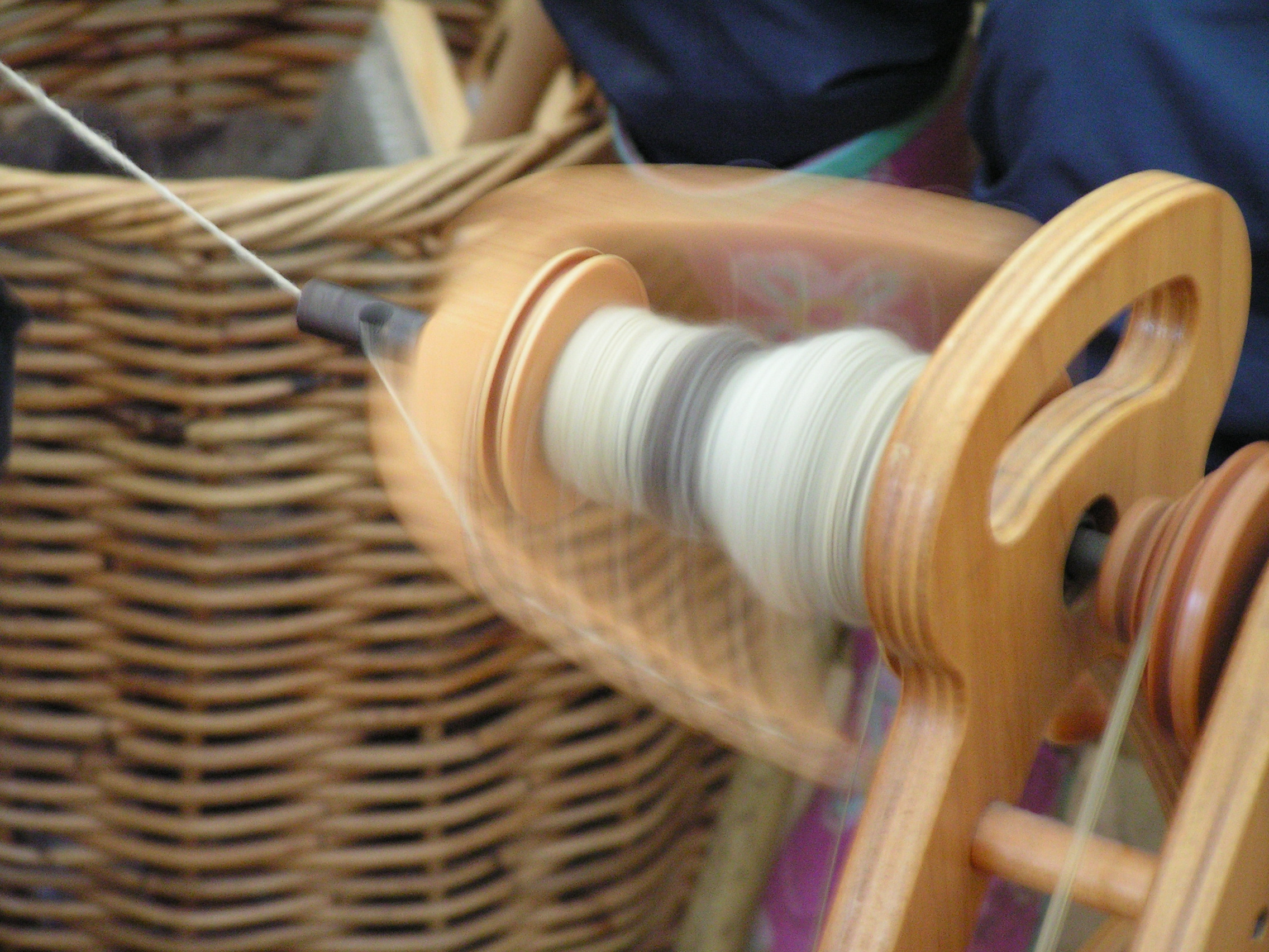 A spinning bobbin in wool-spinning machines.